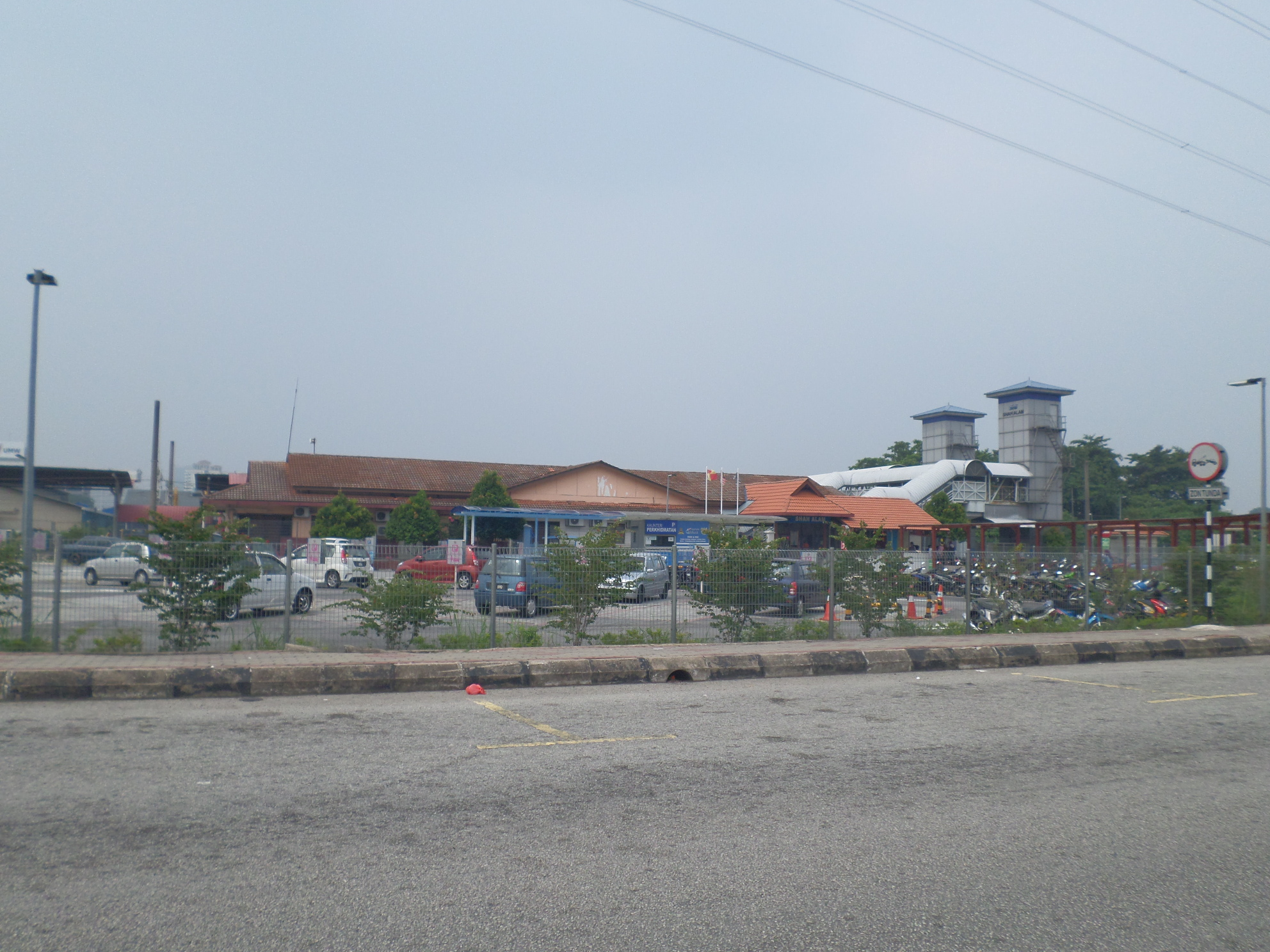 Shah Alam Railway Station, Shah Alam, Petaling, Selangor, Malaysia